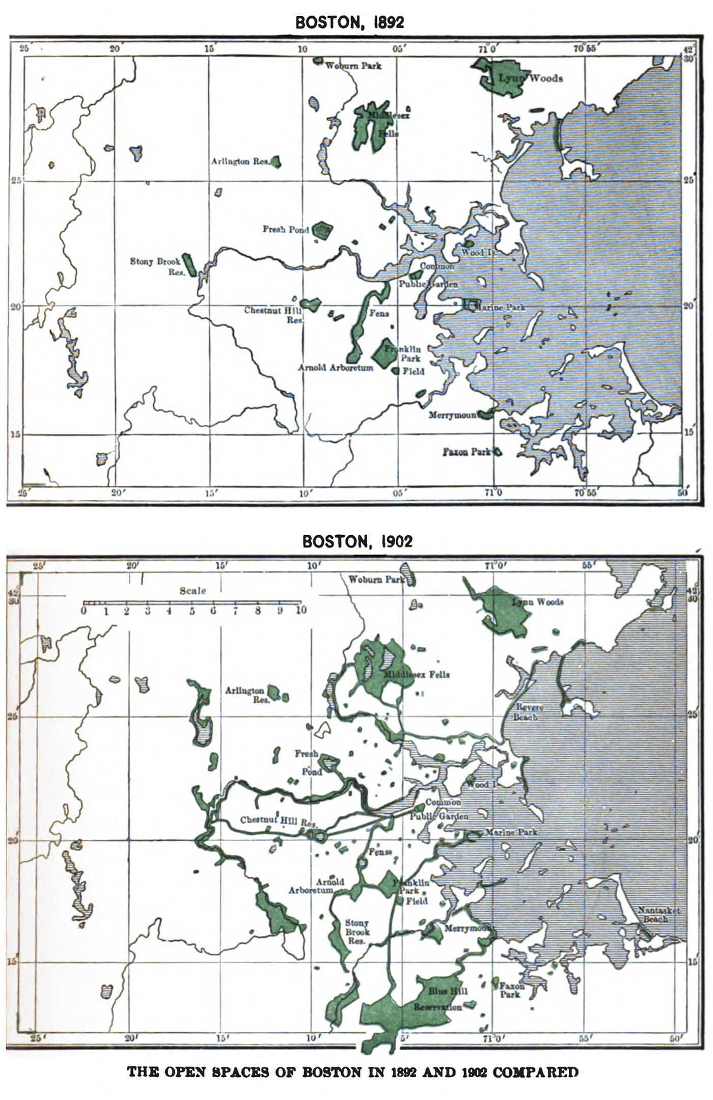 Illustration of the growth of the Metropolitan Park System of Greater Boston between 1892 and 1902